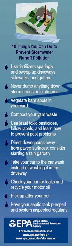 Infographic, "10 Things You Can Do to Prevent Stormwater Runoff Pollution." Excerpted from a printed bookmark distributed by US EPA.